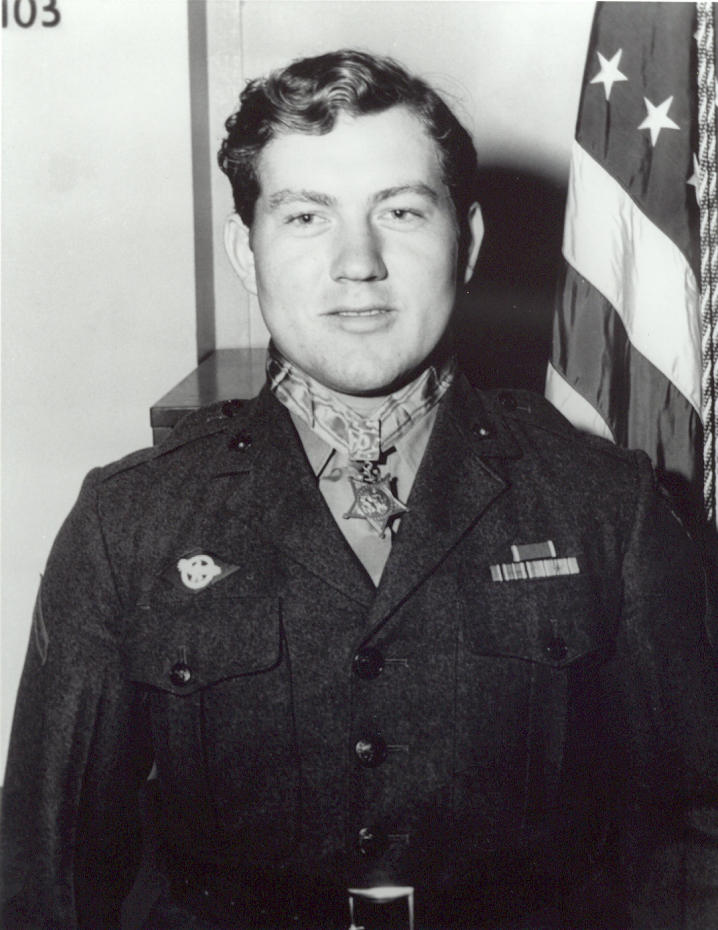 PFC Jacklyn H. Lucas, USMC, Medal of Honor recipient for heroic actions at the Battle of Iwo Jima; high-res photo from the Marine Corps bio at source